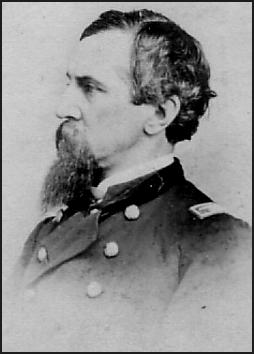 photo of Luther Prentis Bradley (1822-1910)